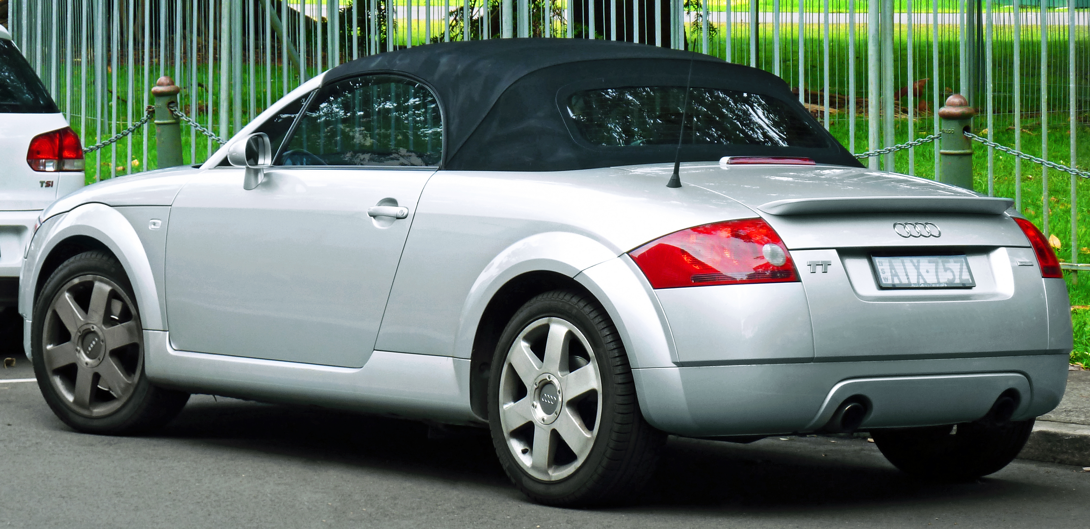 2000 Audi TT (8N) 1.8 T quattro roadster. Photographed in Sydney, New South Wales, Australia.